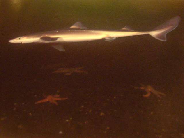 GFDL Image own work